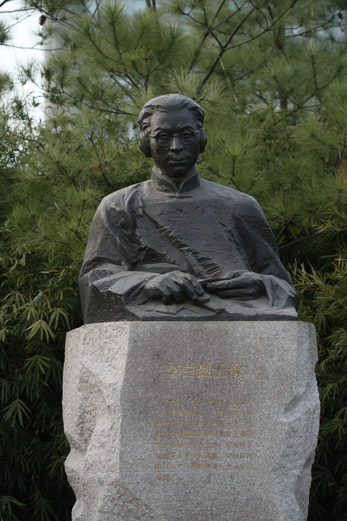 statue of libai(CCP),in century park, shanghai ,china